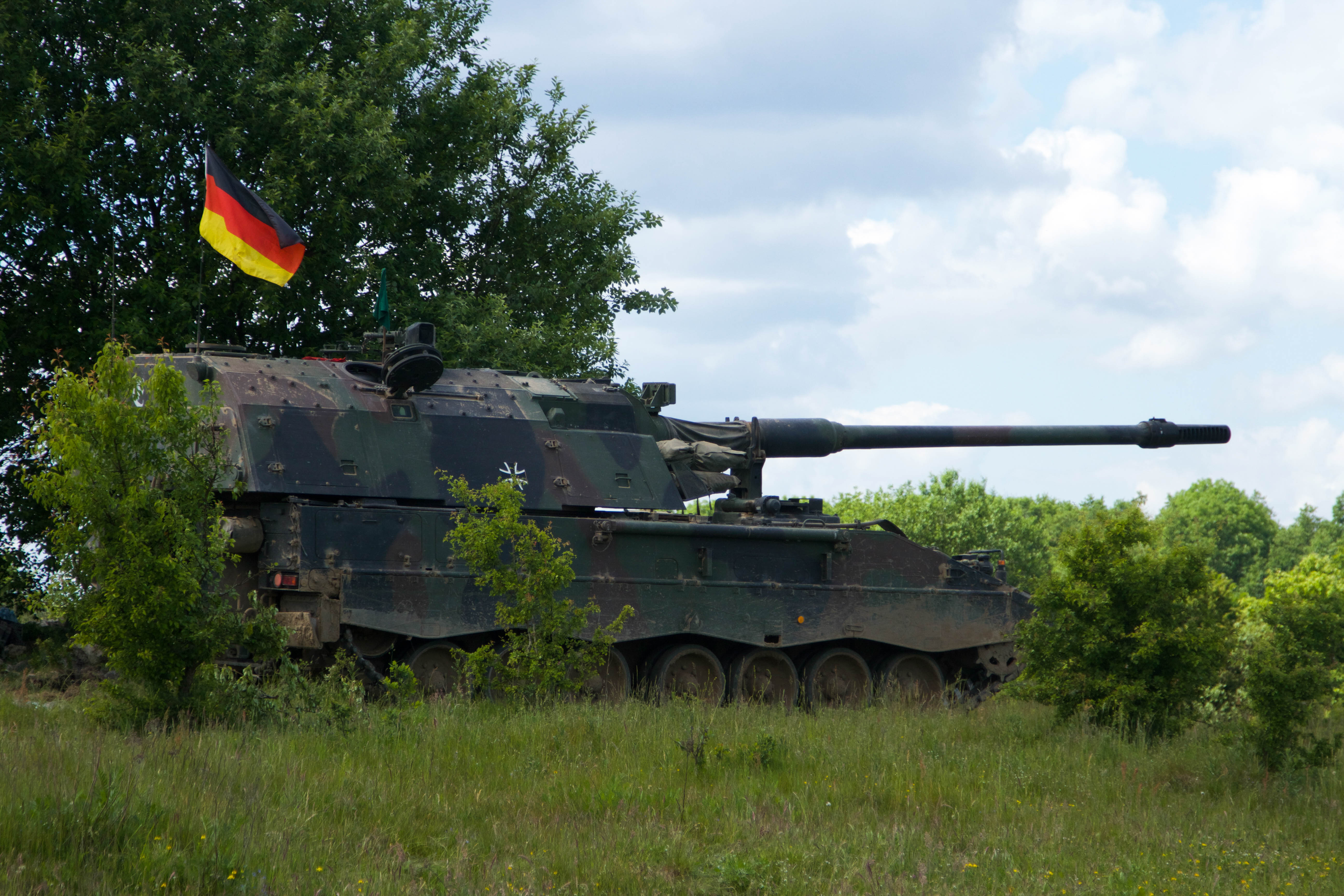 A German Panzerhaubitze 2000 awaits orders from the fire direction center June 11, 2015 at the Drawsko Pomorskie Training Area in Poland as German and U.S. artillery and mortar units train together during Saber Strike 15, a long-standing U.S. Army Europe-led cooperative training exercise. This year’s exercise takes place across Estonia, Latvia, Lithuania, and Poland, and is designed to improve joint operational capability in a range of missions as well as preparing the participating nations and units to support multinational contingency operations. There are more than 6,000 participants from 13 different nations. (U.S. Army photo by Spc. Marcus Floyd, 13th Public Affairs Detachment)